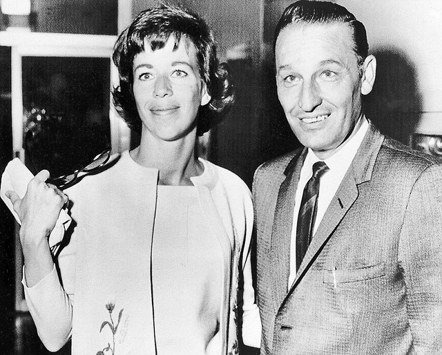 Carol Burnett with her attorney Harry Claiborne after divorcing actor Don Saroyan